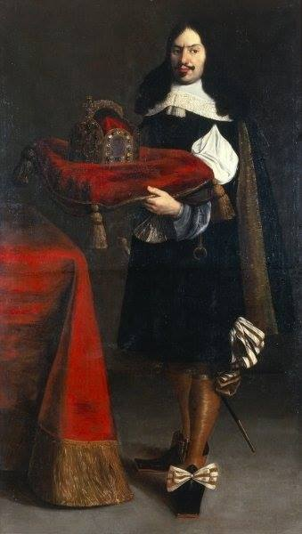 Portrait of Georg Ludwig von Sinzendorf Holding the Crown of the Holy Roman Empire